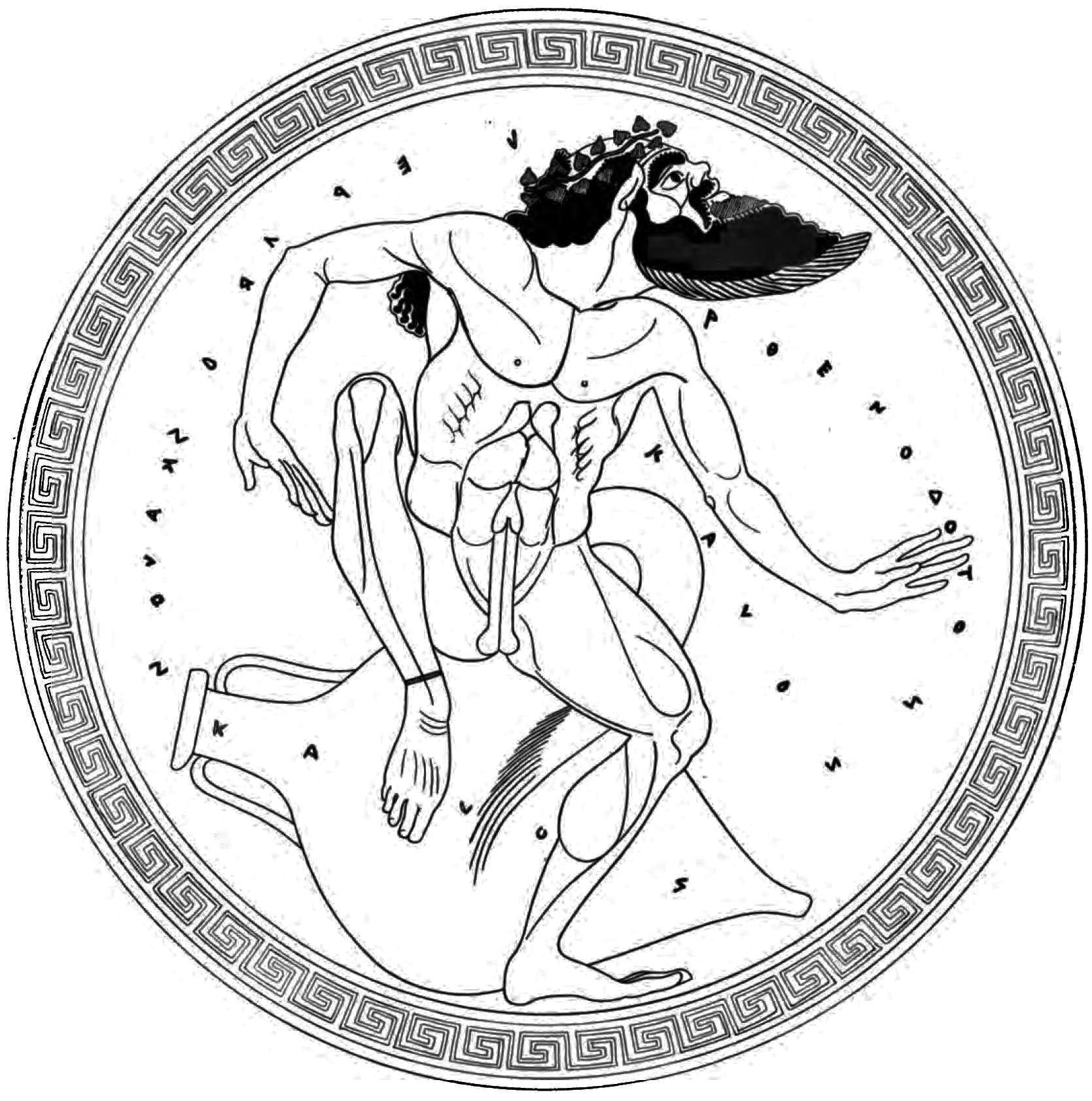 painting from an ancient greek drinking cup from the Museum of Fine Arts, Boston